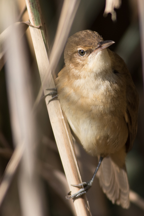 Great reed warbler. Valley of Springs Region, Israel.